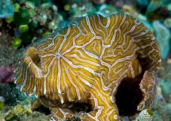 Psychedelic frogfish (Histiophryne psychedelica). For a higher resolution, contact David Hall at [1]. This version has been flipped over the vertical axis.